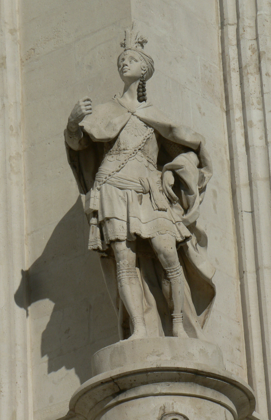 Statue of last emperor Inca, Atahualpa, (? - 1533). In the South facade of the Main Floor of the Real Palace of Madrid.